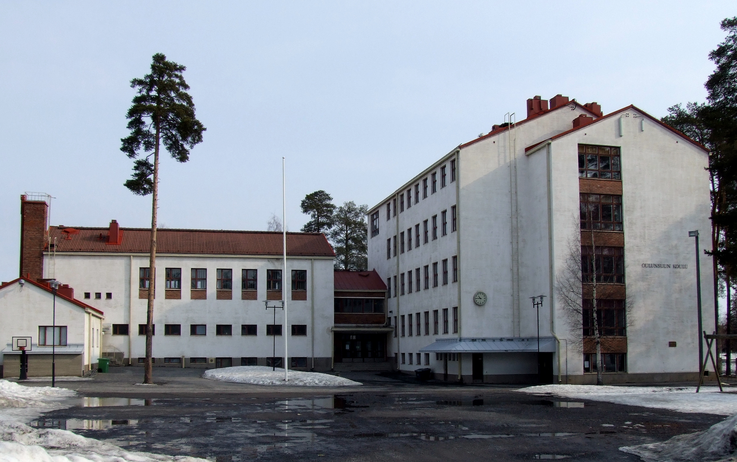 Oulunsuu elementary school in Oulu, Finland. The school was designed by architect Martti Heikura and built in 1955.